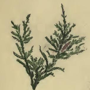 Stainton’s Natural History of the Tineina (1855–1873): Aristotelia ericinella a sprig of Calluna bearing a web formed by larva